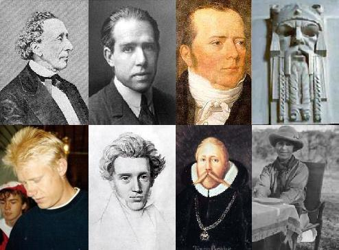 Photos are taken from wikipedia articles. All images are PD. See File:Hans Christian Andersen.jpg, File:Niels Bohr.jpg, File:Ørsted.jpg, File:Sweyn.jpg (recent 3D creation, but permitted by the UK's FOP provisions), File:Peter Schmeichel juli 1991.JPG, File:Kierkegaard.jpg, File:Tycho Brahe.JPG, and File:KarenBlixen.jpeg. The copyright status of several of these images has not been documented and several of the components are very likely not PD outside of the United States.